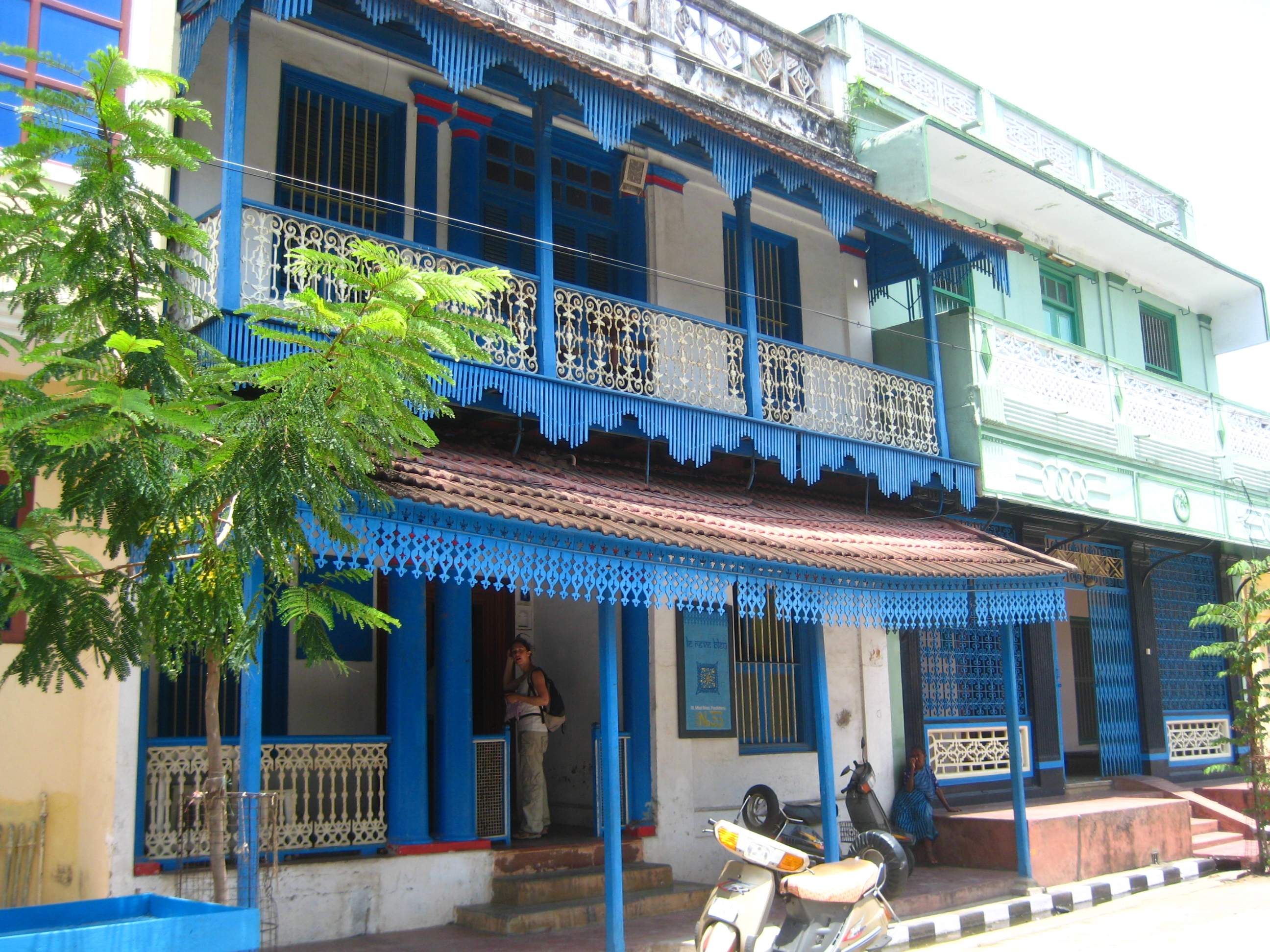 Le Rêve Bleu guesthouse, 33 Milad st, Puducherry (Pondicherry), India. This building located in the Muslim quarter of Puducherry is a well-preserved example of traditional Tamil architecture. Note the typical street veranda (talvaram) with wooden posts and the raised plattform (tinnai) with masonry benches for visitors.